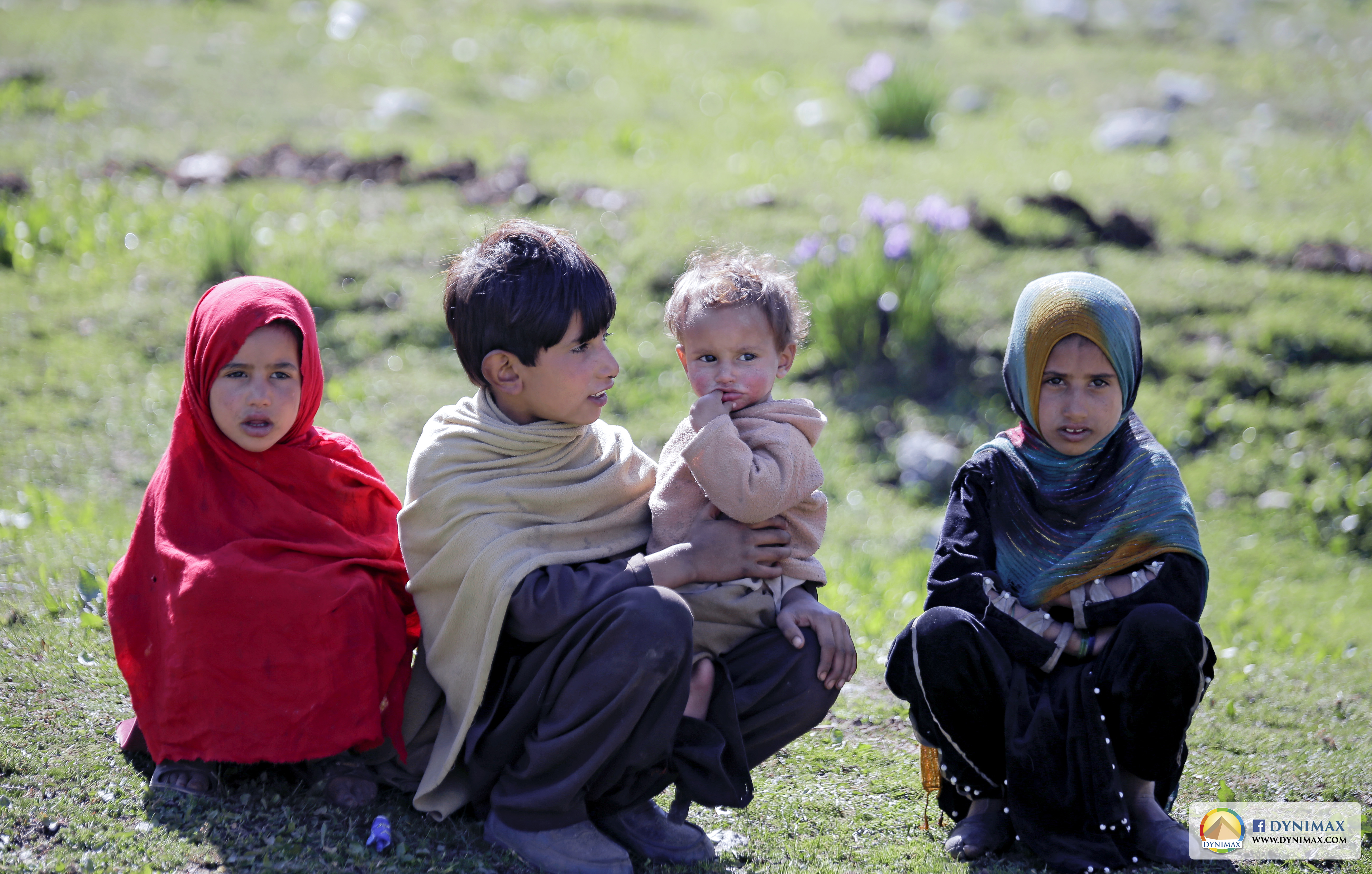 Kids are enjoying sunny weather in Jazz Banda.